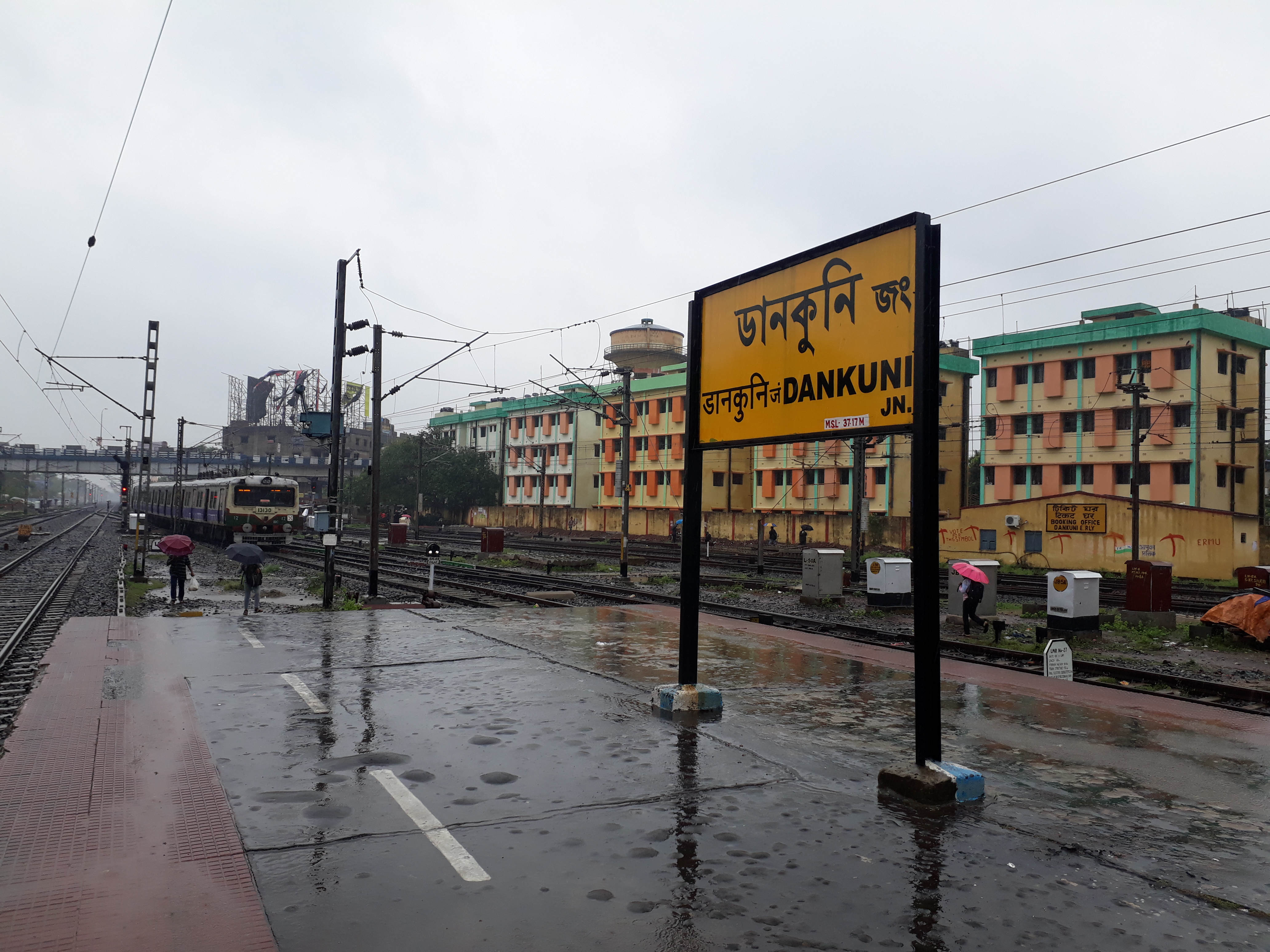 Dankuni railway station in Howrah-Bardhaman Cord line and Sealdah Dankuni branch line, Howrah district, West Bengal